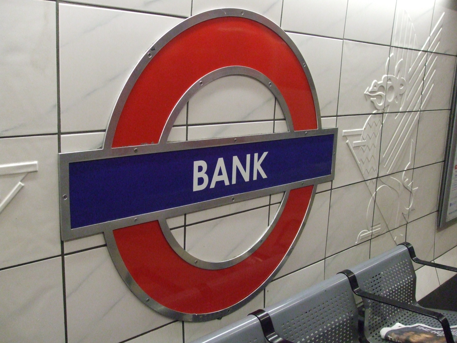 Roundel on eastbound Central line platform at Bank tube station